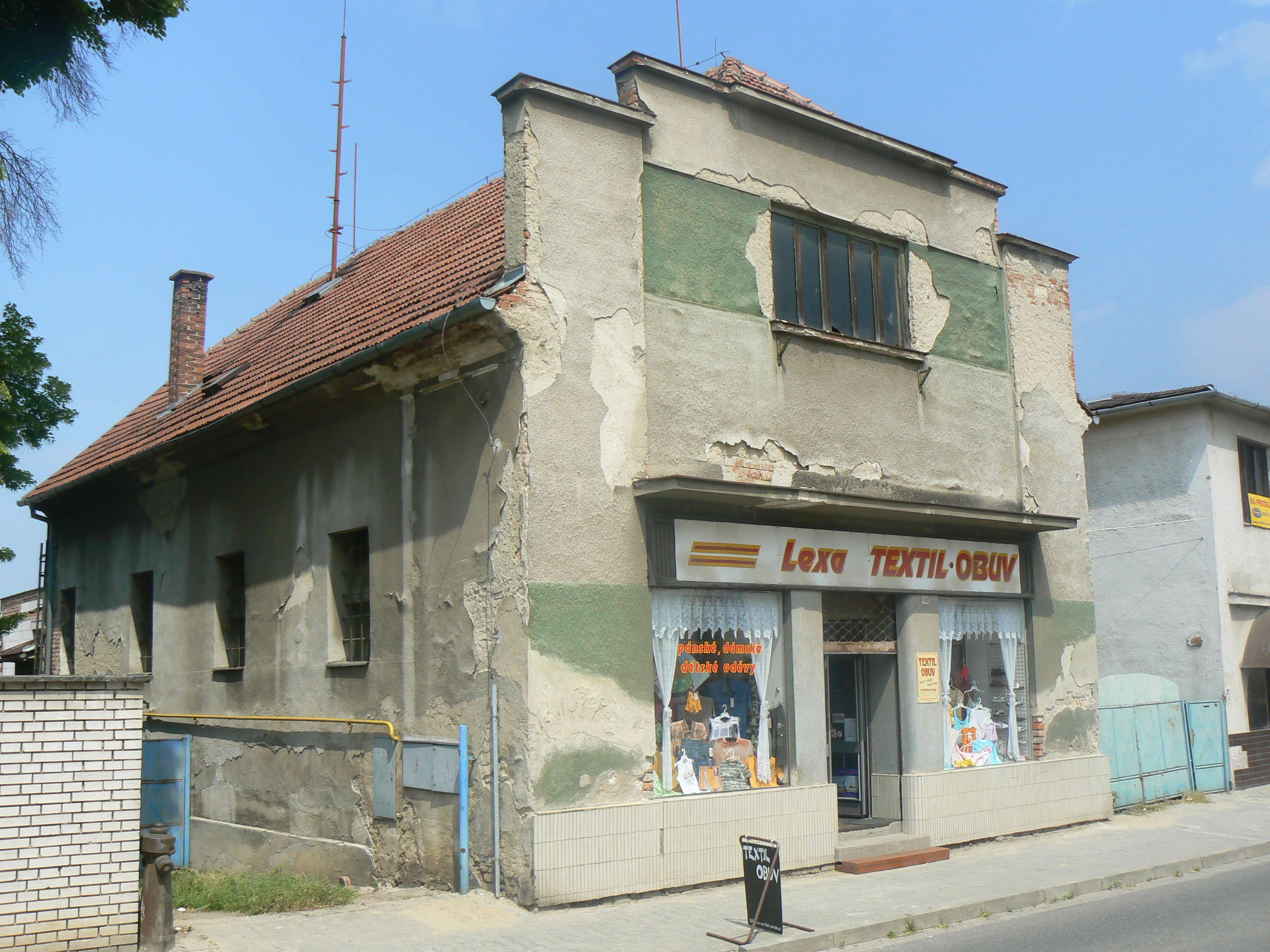 Former Synagogue in Koryčany